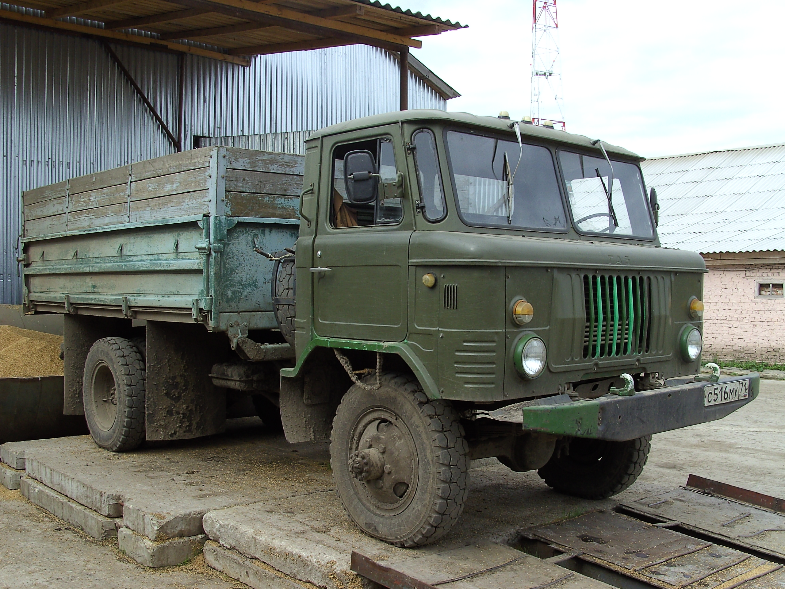 A GAZ-66 in use of farm in Russia.